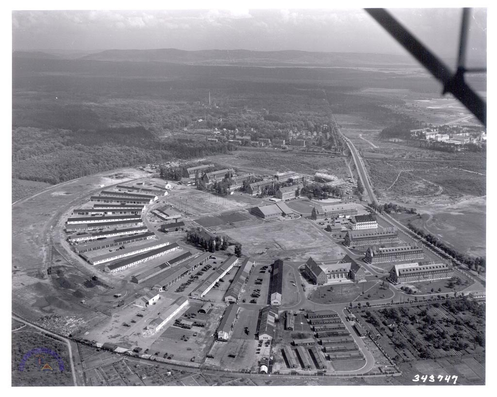 Pionier-Kaserne later Pioneer Kaserne